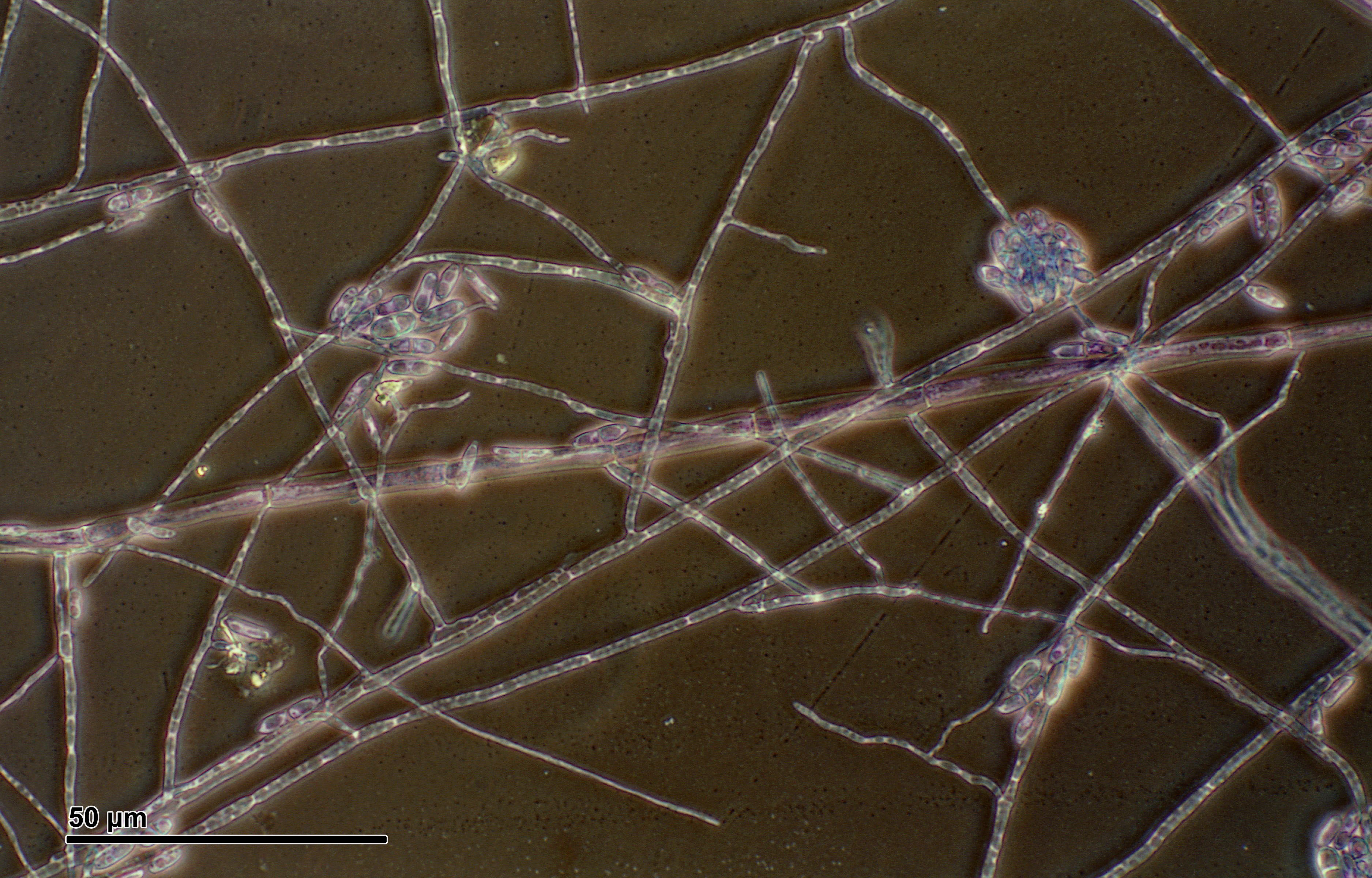 Fusarium solani (Fusarium solani): Cultured and stained deuteromycetes. Stain: Prussian blue. Optical microscopy technique: Negative phase contrast. Magnification: 1200x (for picture width 26 cm ~ A4 format).